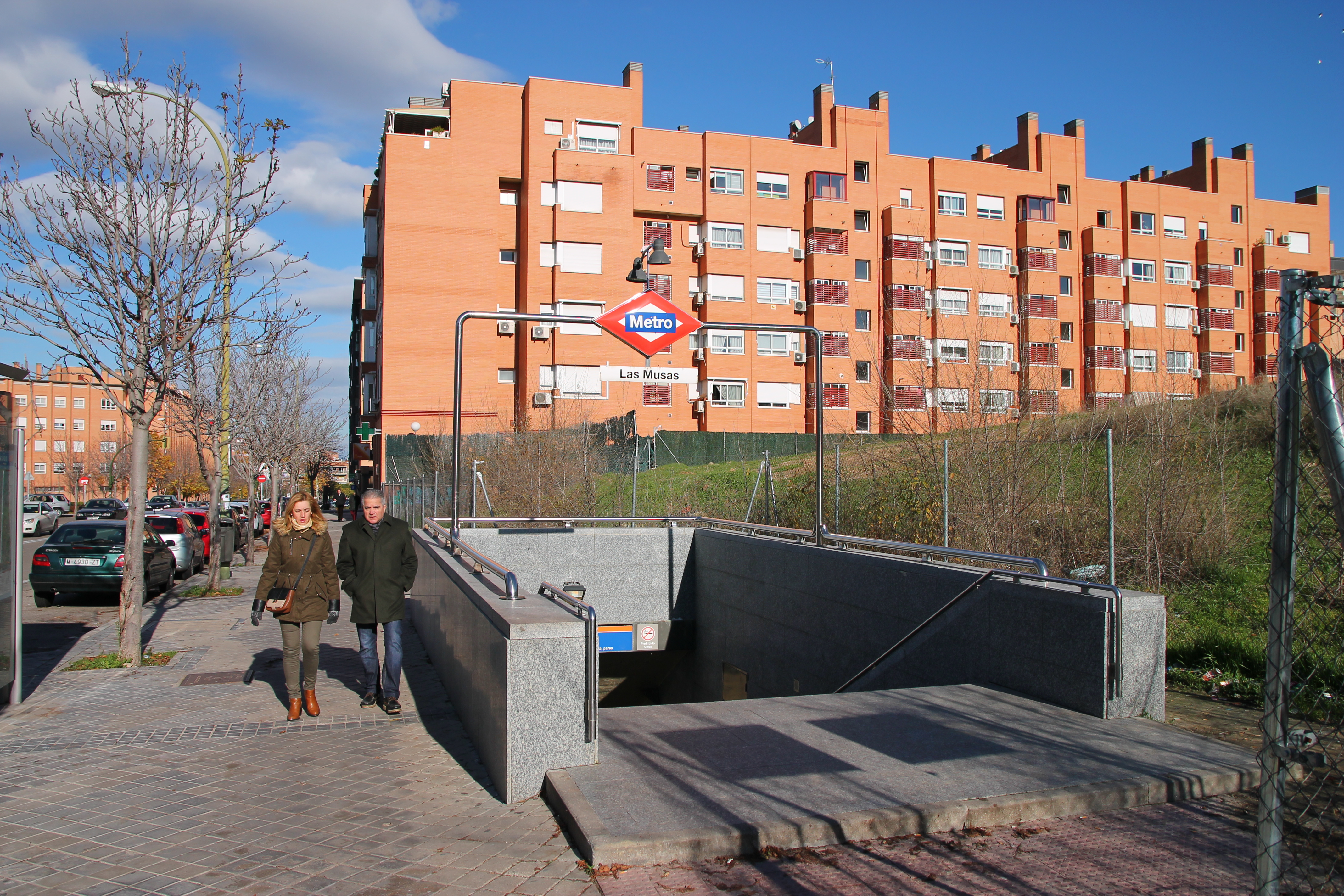 Estación de Las Musas